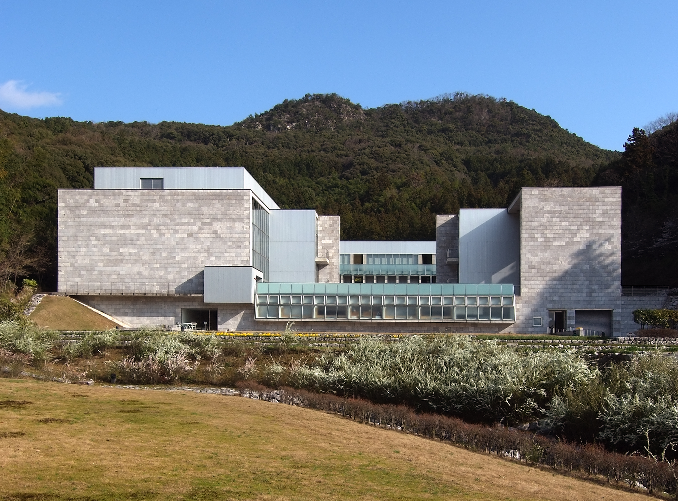 Akiyoshidai International Art Village, at Mine, Yamaguchi prefecture, design by Arata Isozaki in 1998.